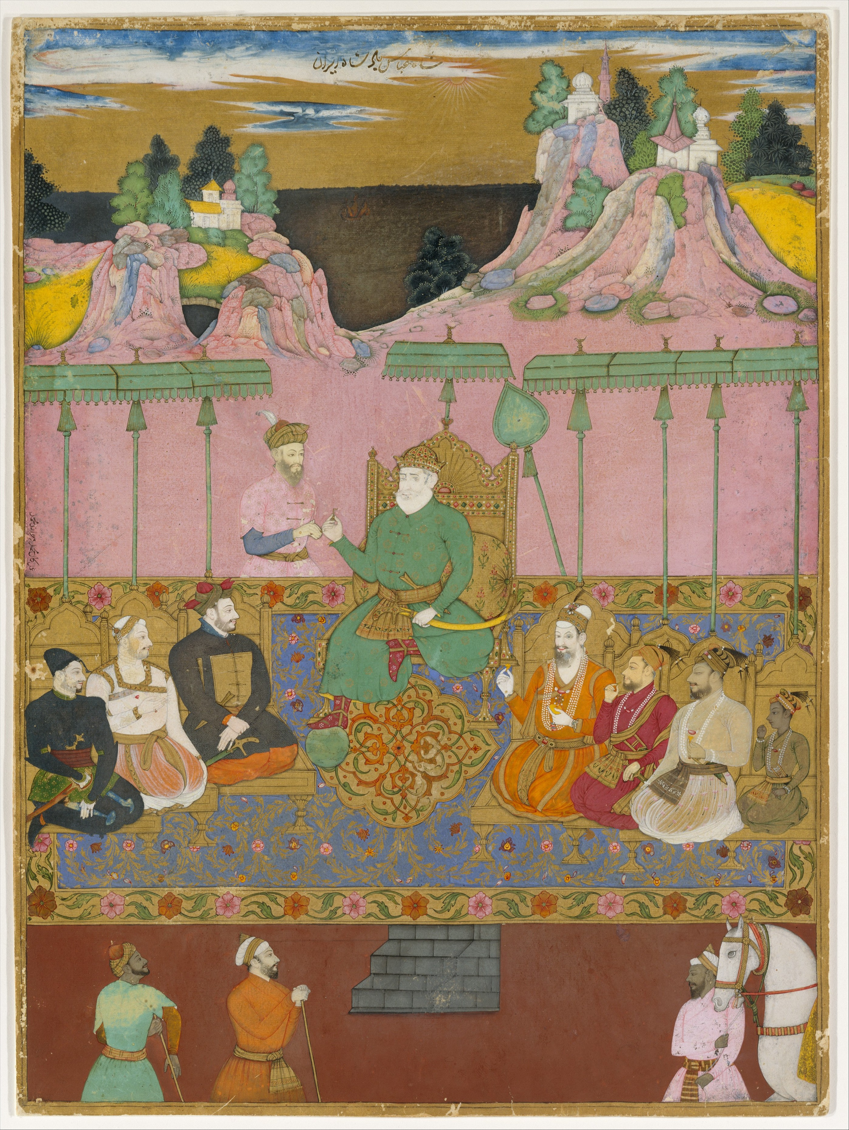 Illustrated album leaf; Codices